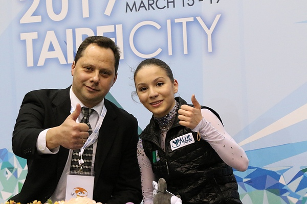 Andrea Montesinos Cantú and Vladimir Petrenko at the 2017 Junior World Championships